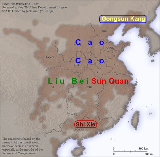 map showing the places of China's Warlord on the eve of the Three Kingdoms period.